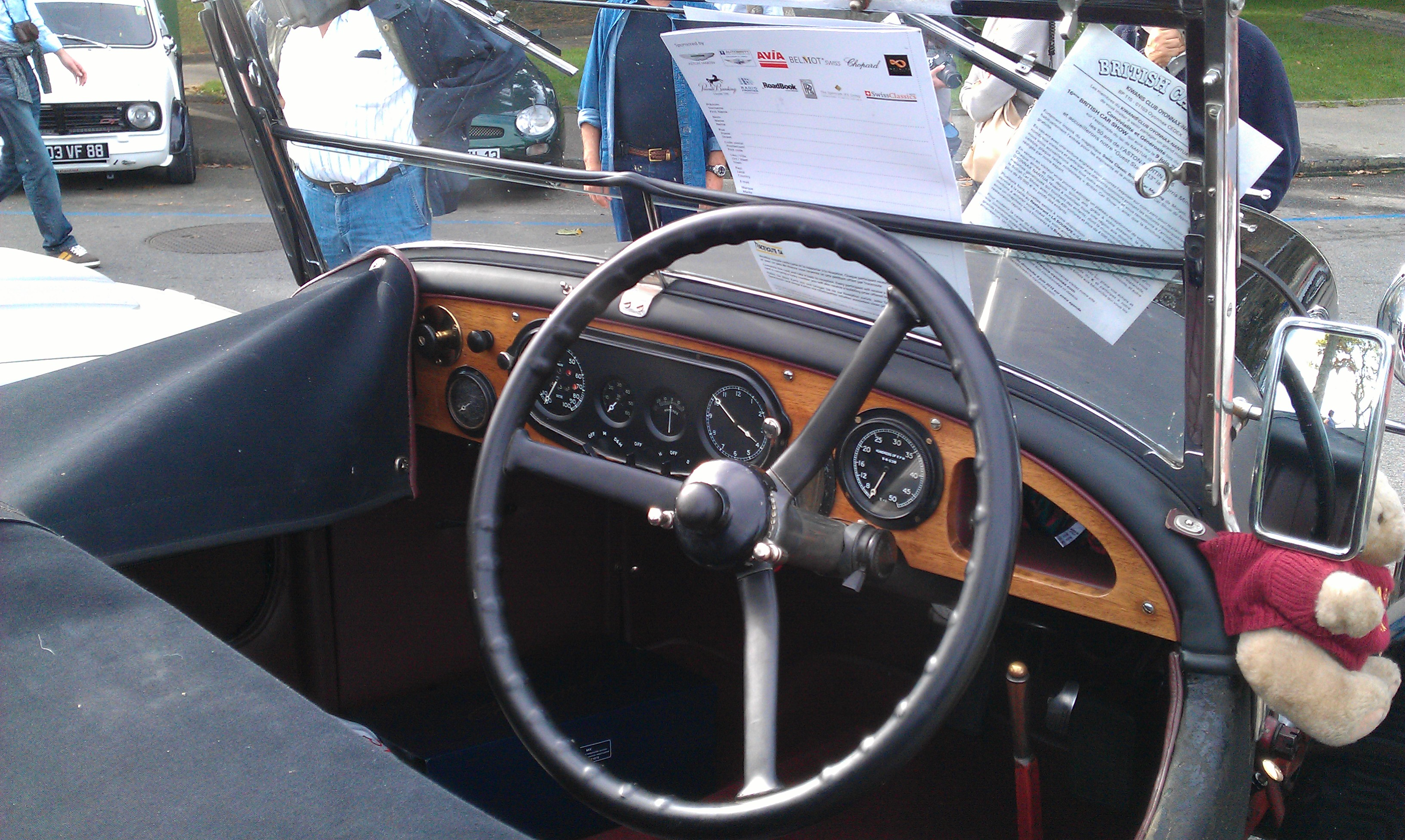 1928 Lagonda 2.0 L high chassis Speed model tourer This particular car was the demonstrator car in the London Lagonda shop in 1928.